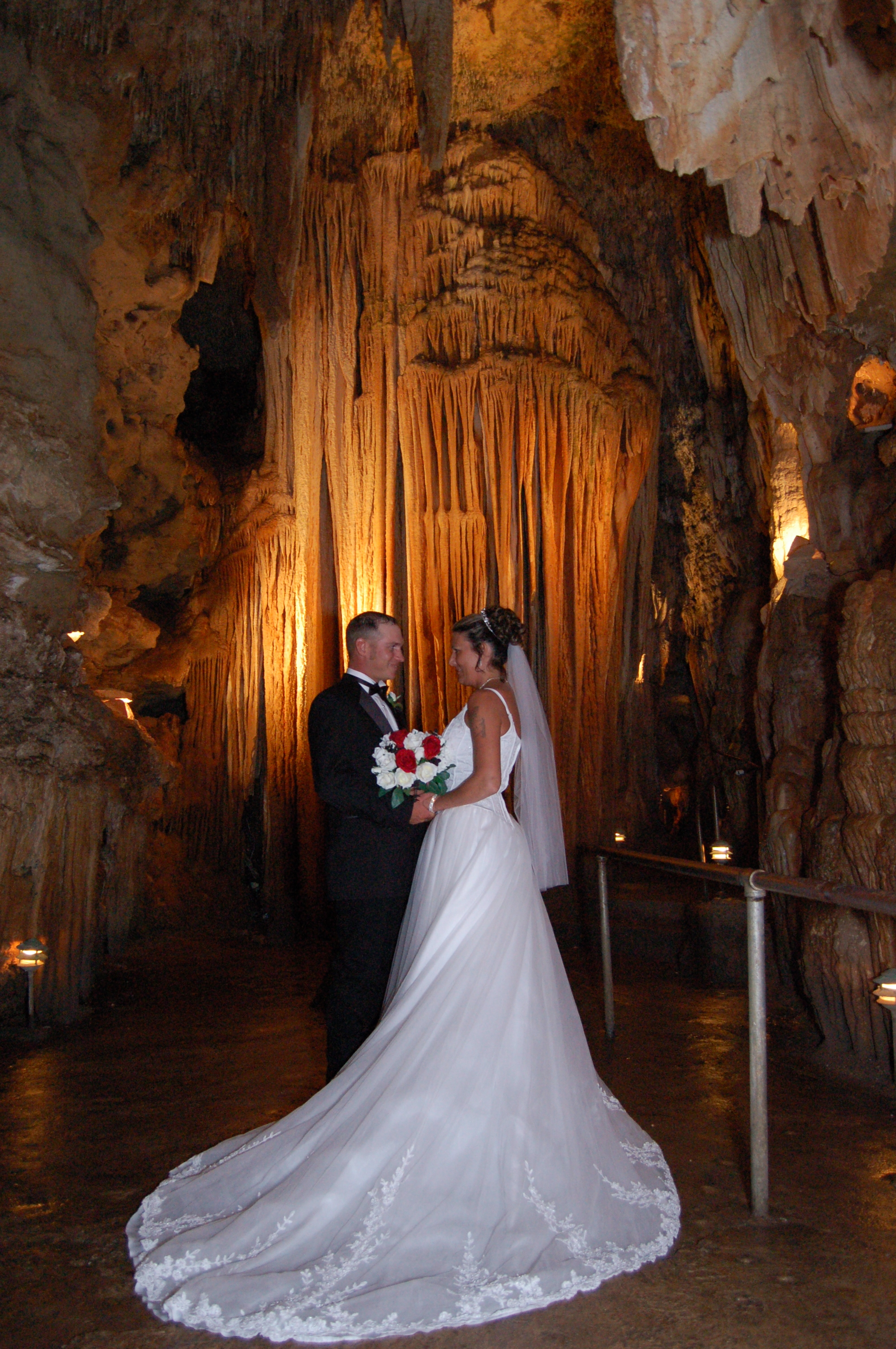 Couple inside the underground Bridal Chapel inside Bridal Cave